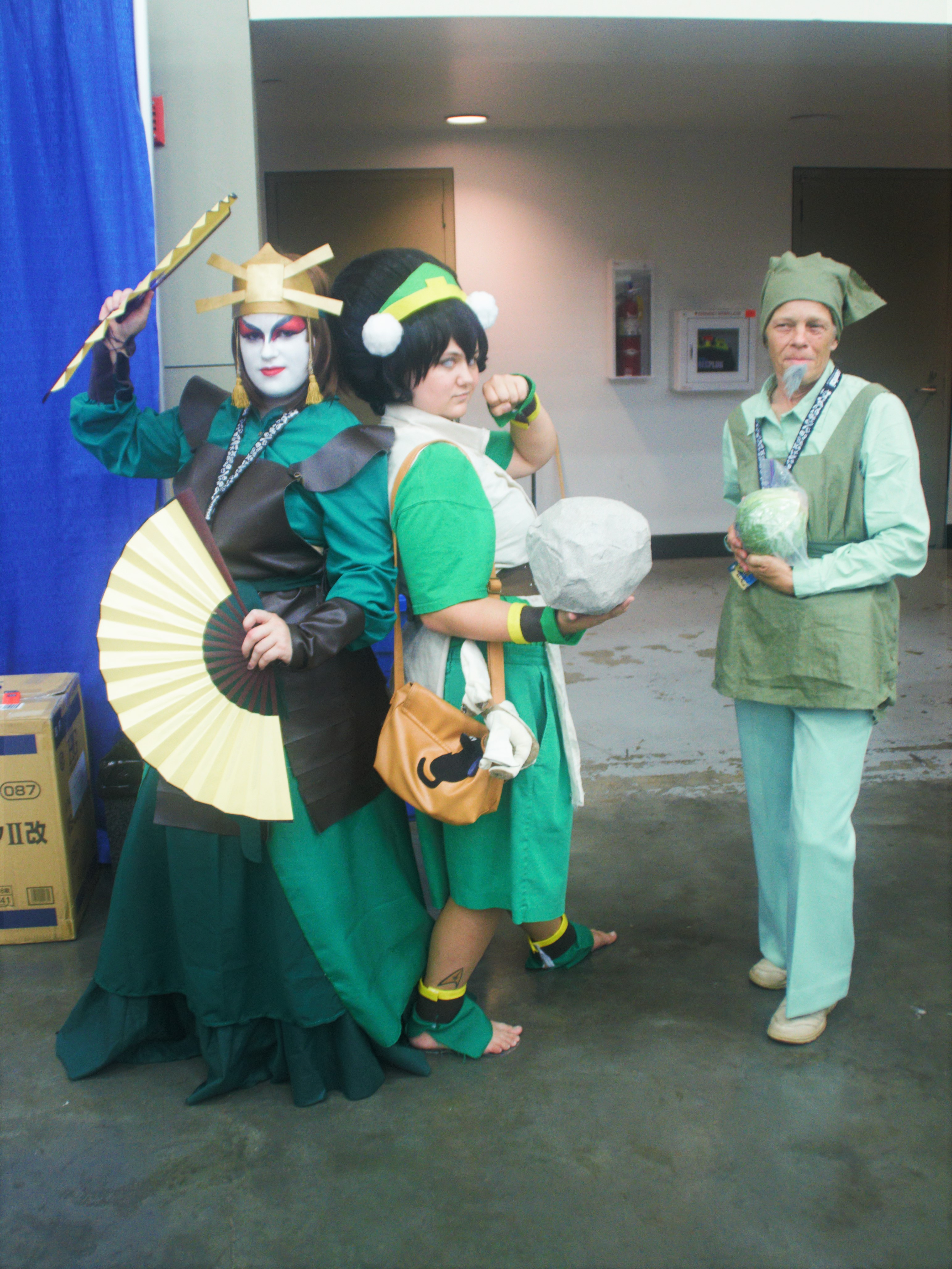 Cosplay from Otakon 2016